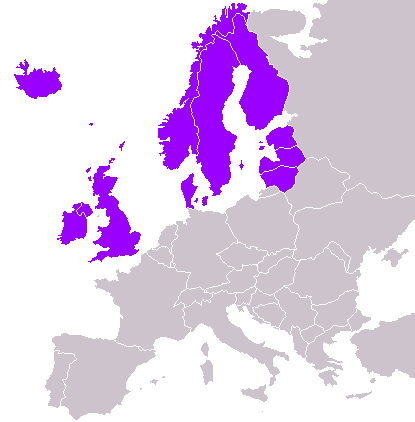 Northern Europe after UN Statistics Division